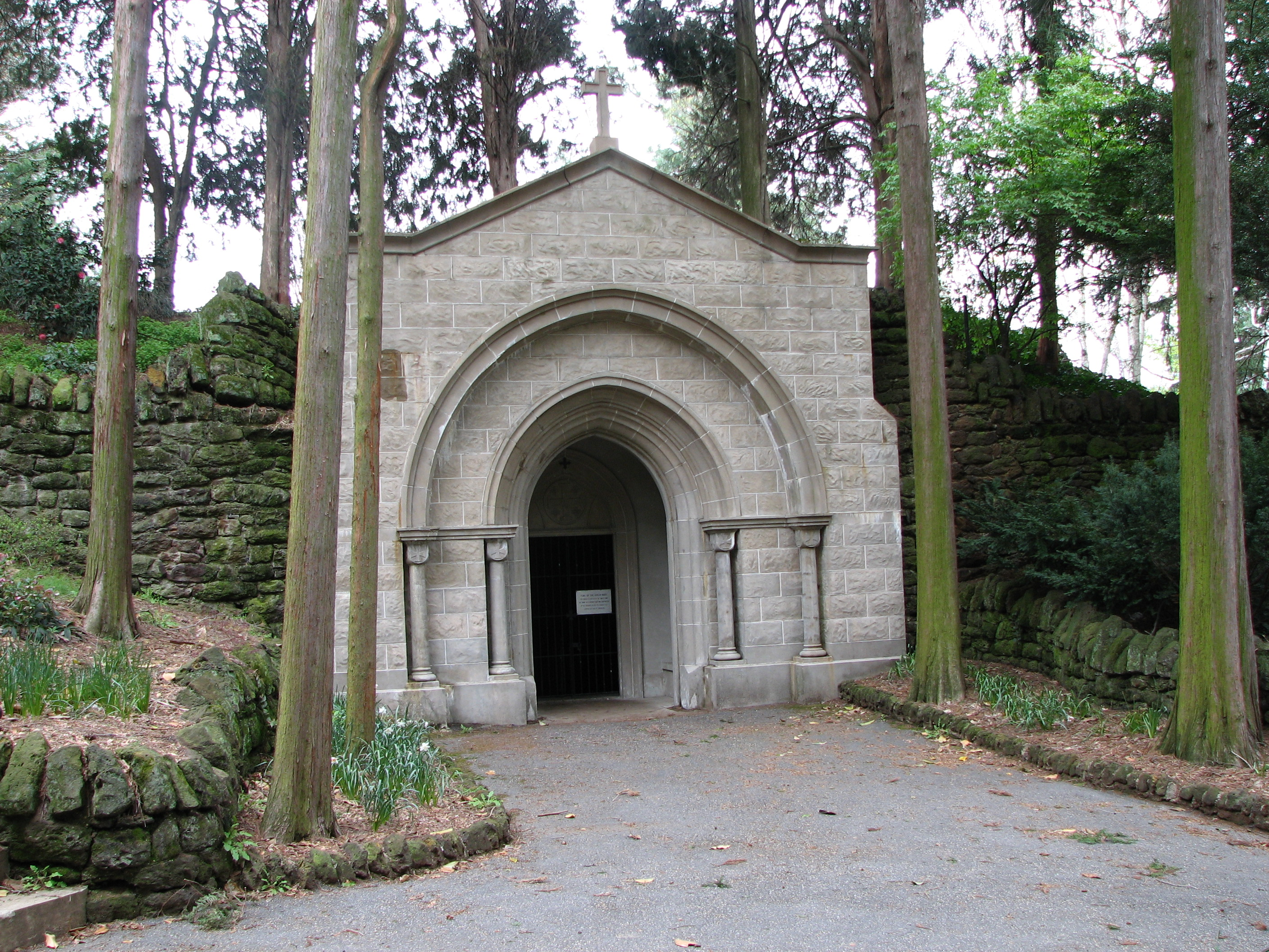 Tomb of the Blessed Virgin in the Franciscan Monastery in Washington DC